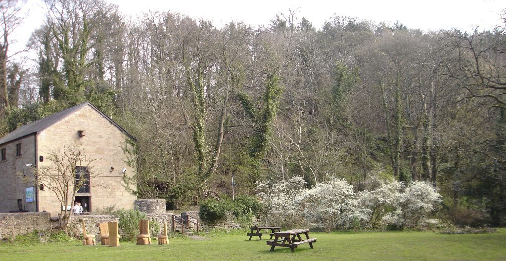 Nant Mill visitors park on the Clywedog Trail.